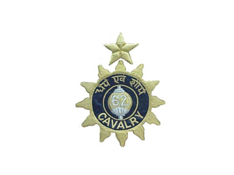 Regt Crest of 62 CAVALRY